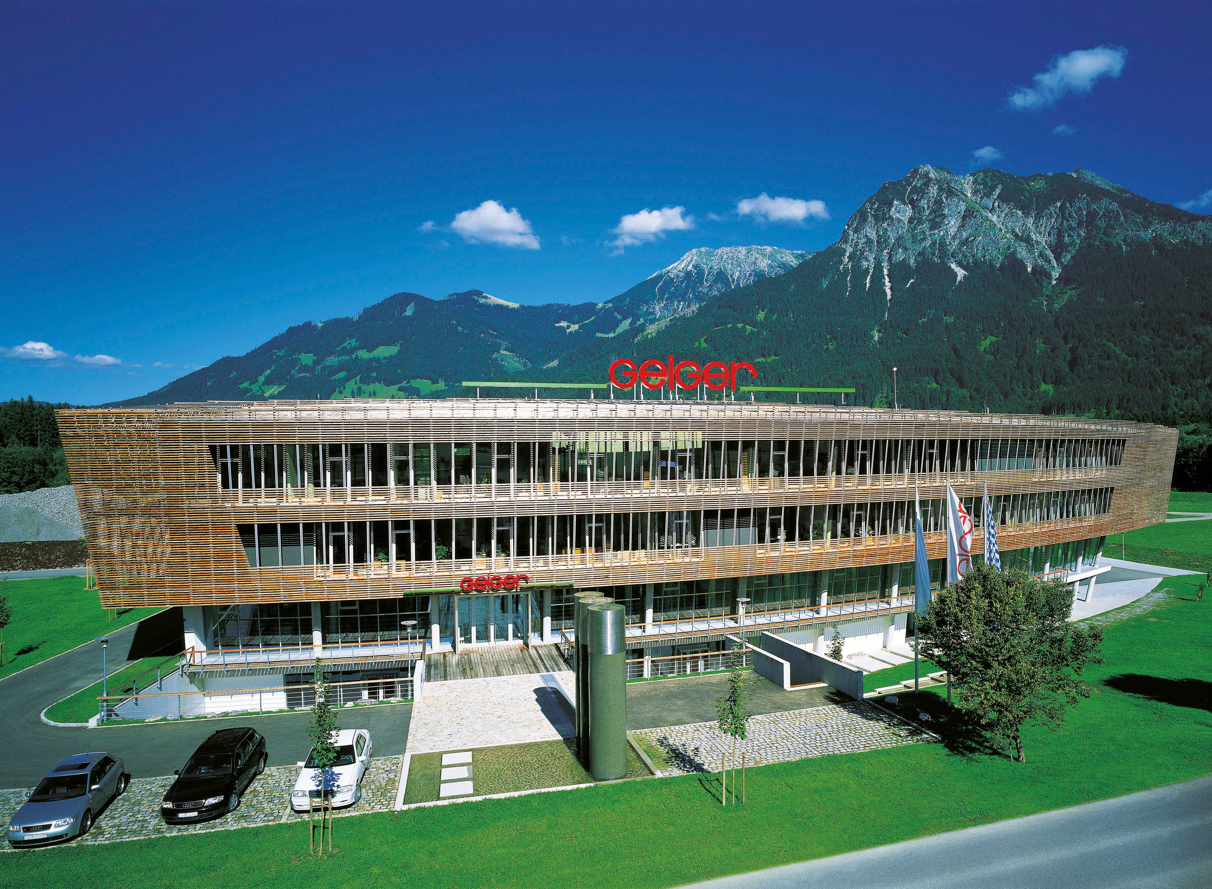 Headquarters of the Geiger Group in Oberstdorf